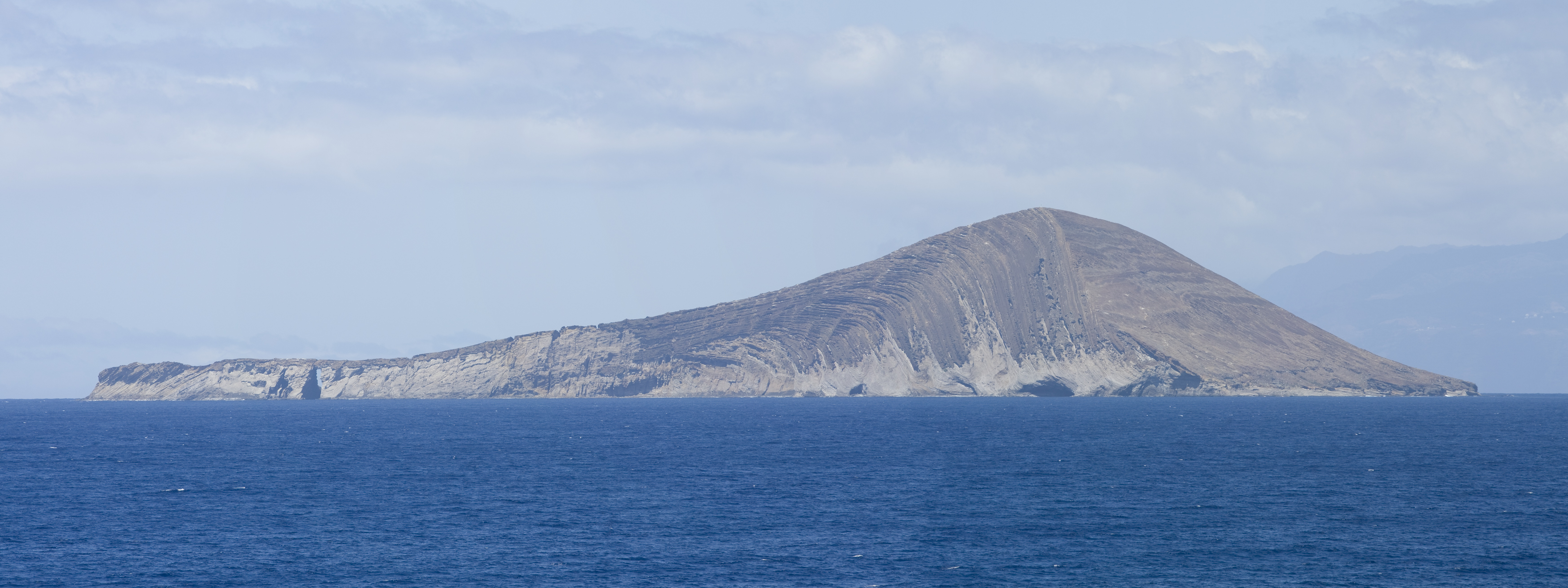 A view from the sea of the west side of Lehua, stitched from multiple images